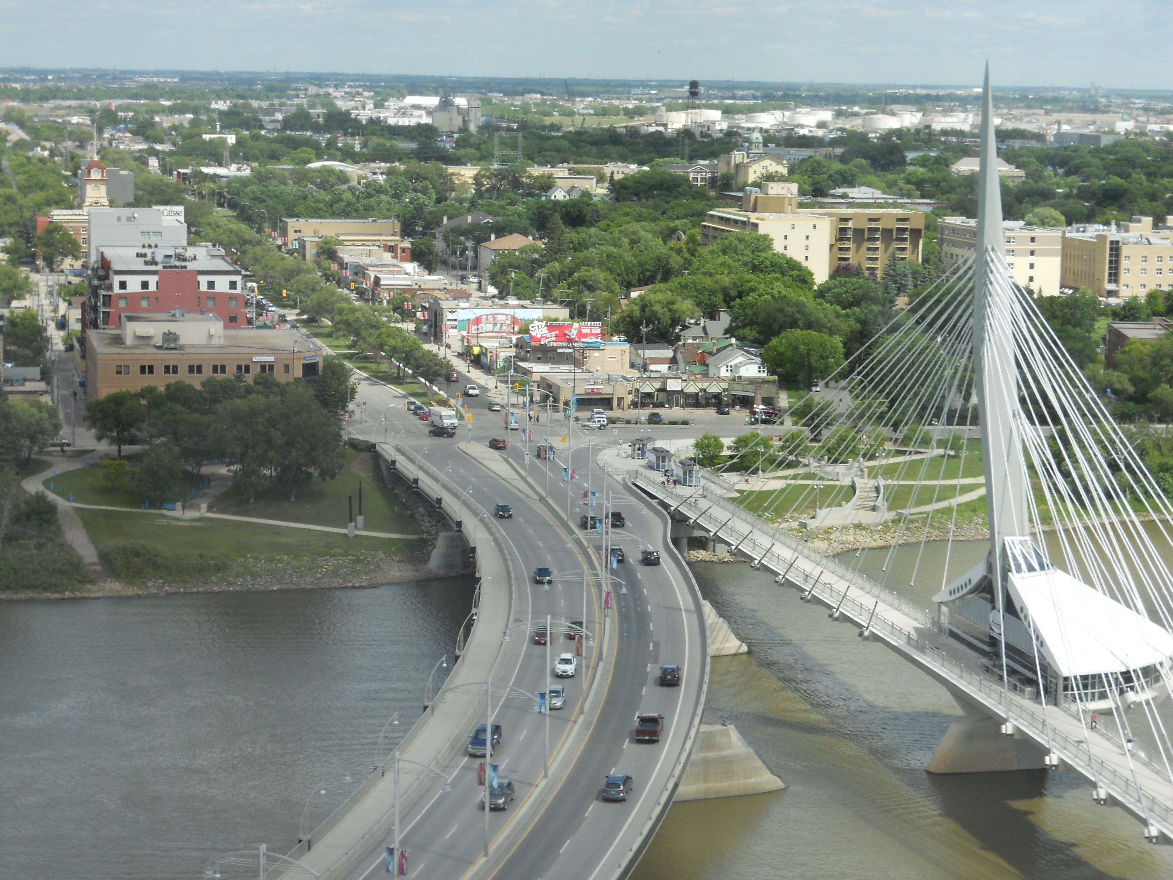 Esplanade Riel (2017.)